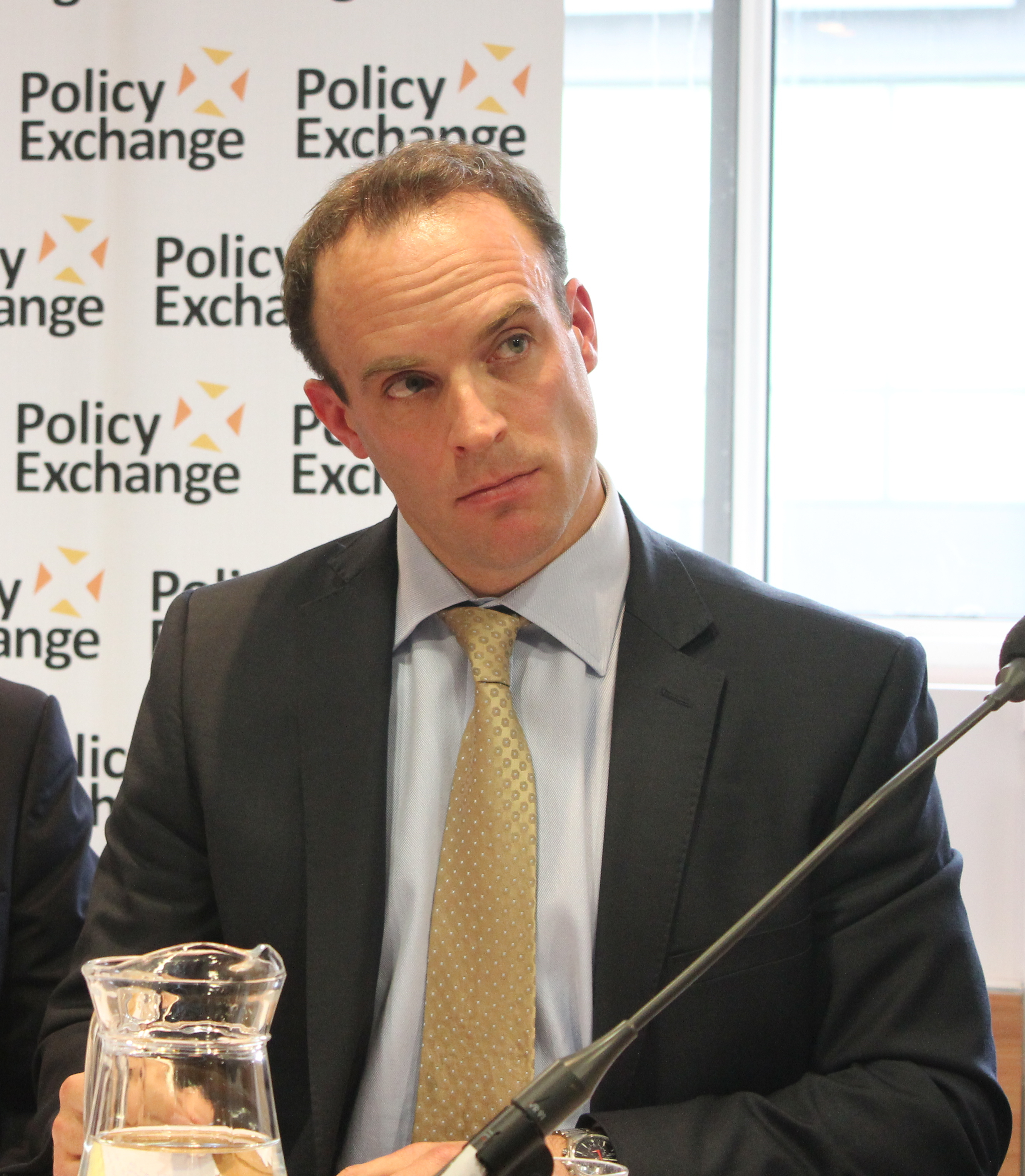 Dominic Raab, Conservative MP for Esher and Walton.